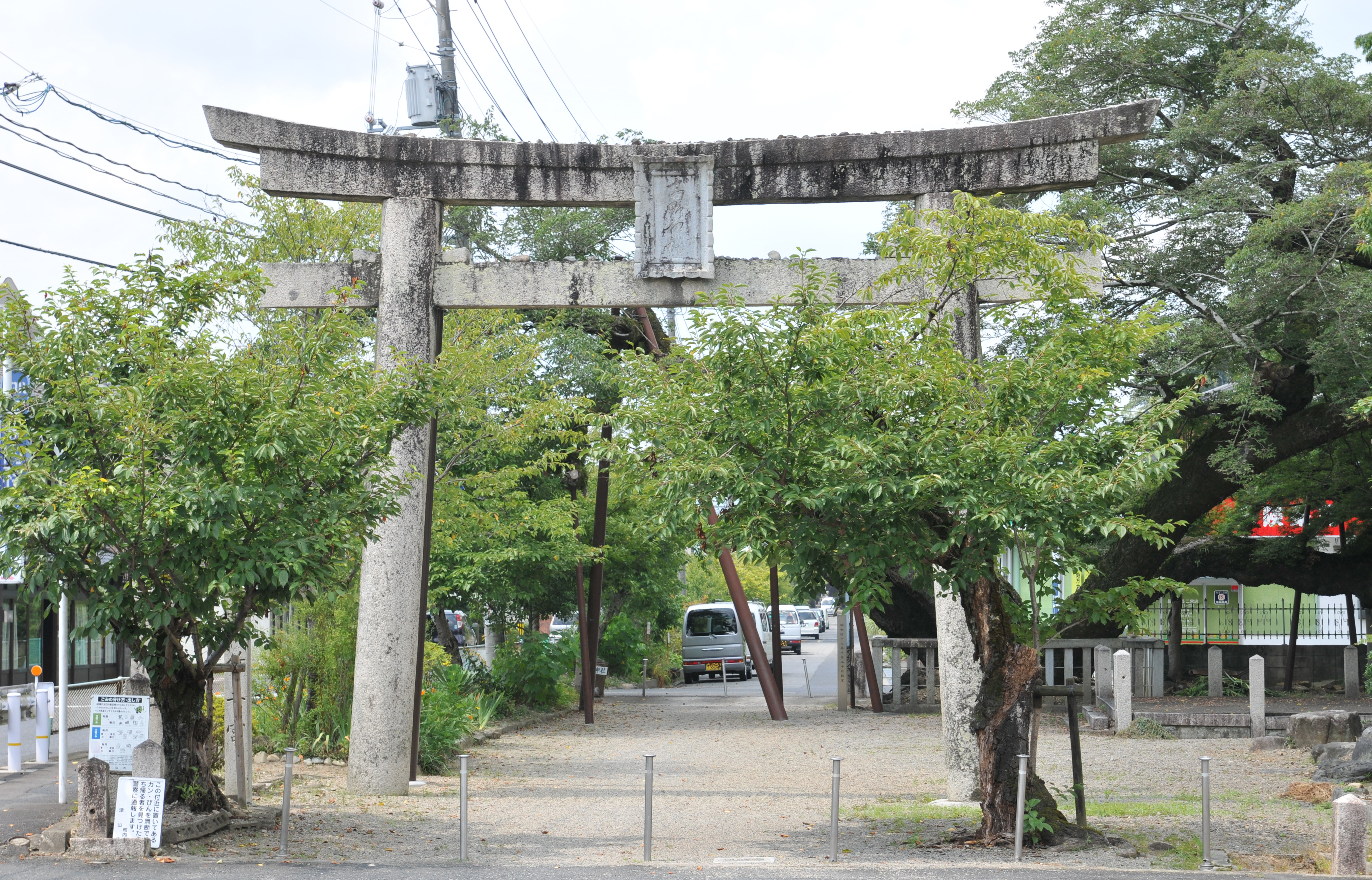 Torii, Takano jinja